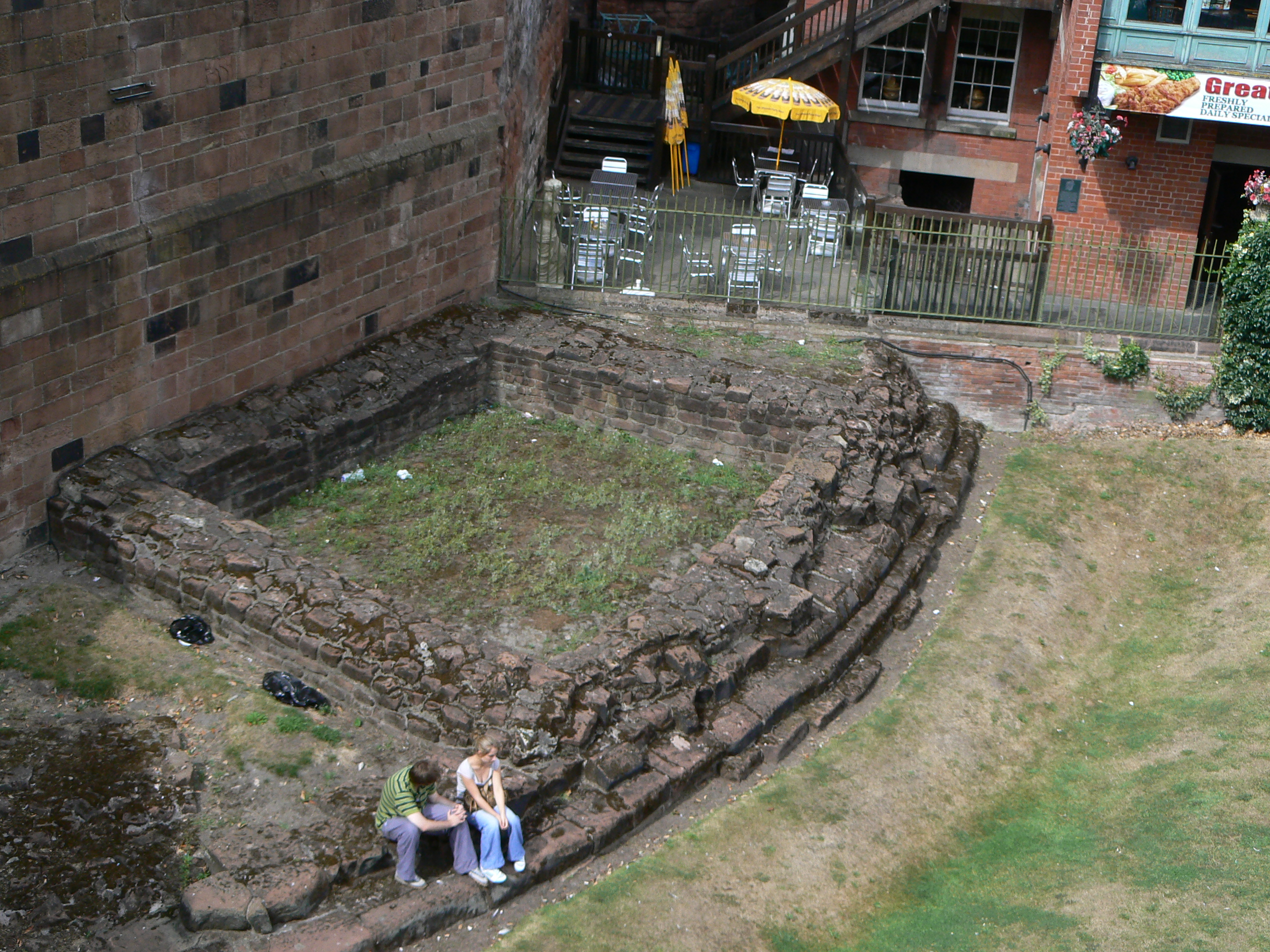 Roman ruins in Chester